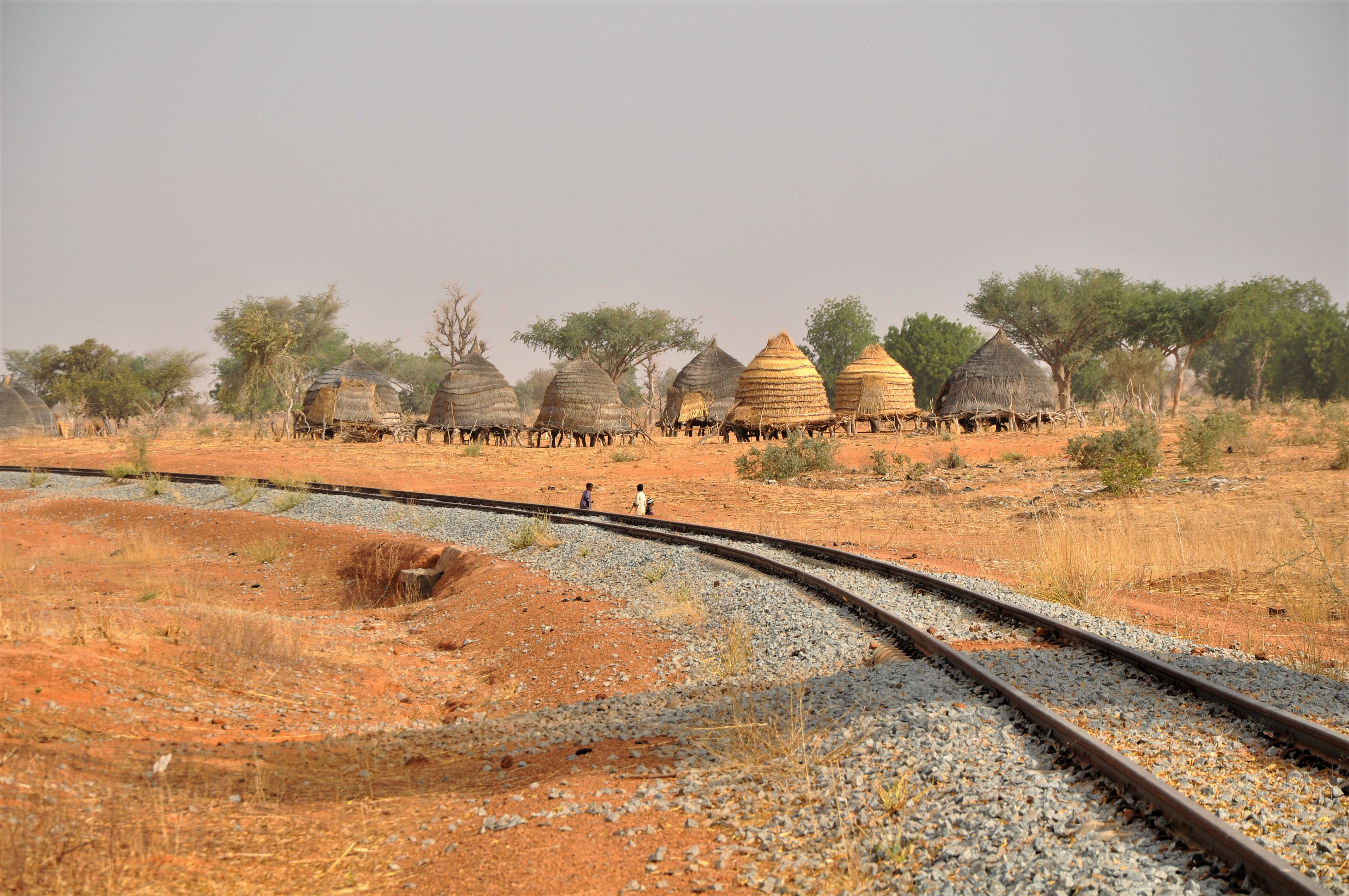 The railway and grain storage sheds at Kodo, a village along the Niamey-Dosso railway in Niger. Kodo lies some 73 km to the southeast of Niamey. This railway was inaugurated on 29 January 2016 but has never seen a train.